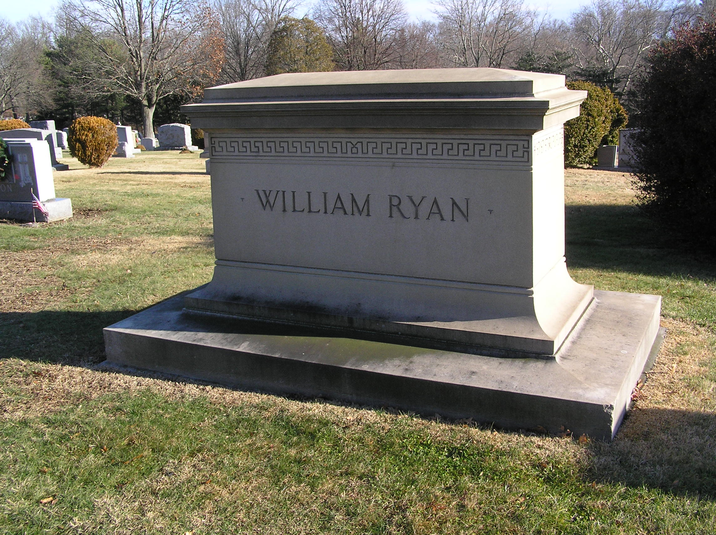 The gravesite of William Ryan in Saint Mary's Cemetery, Greenwich, Connecticut